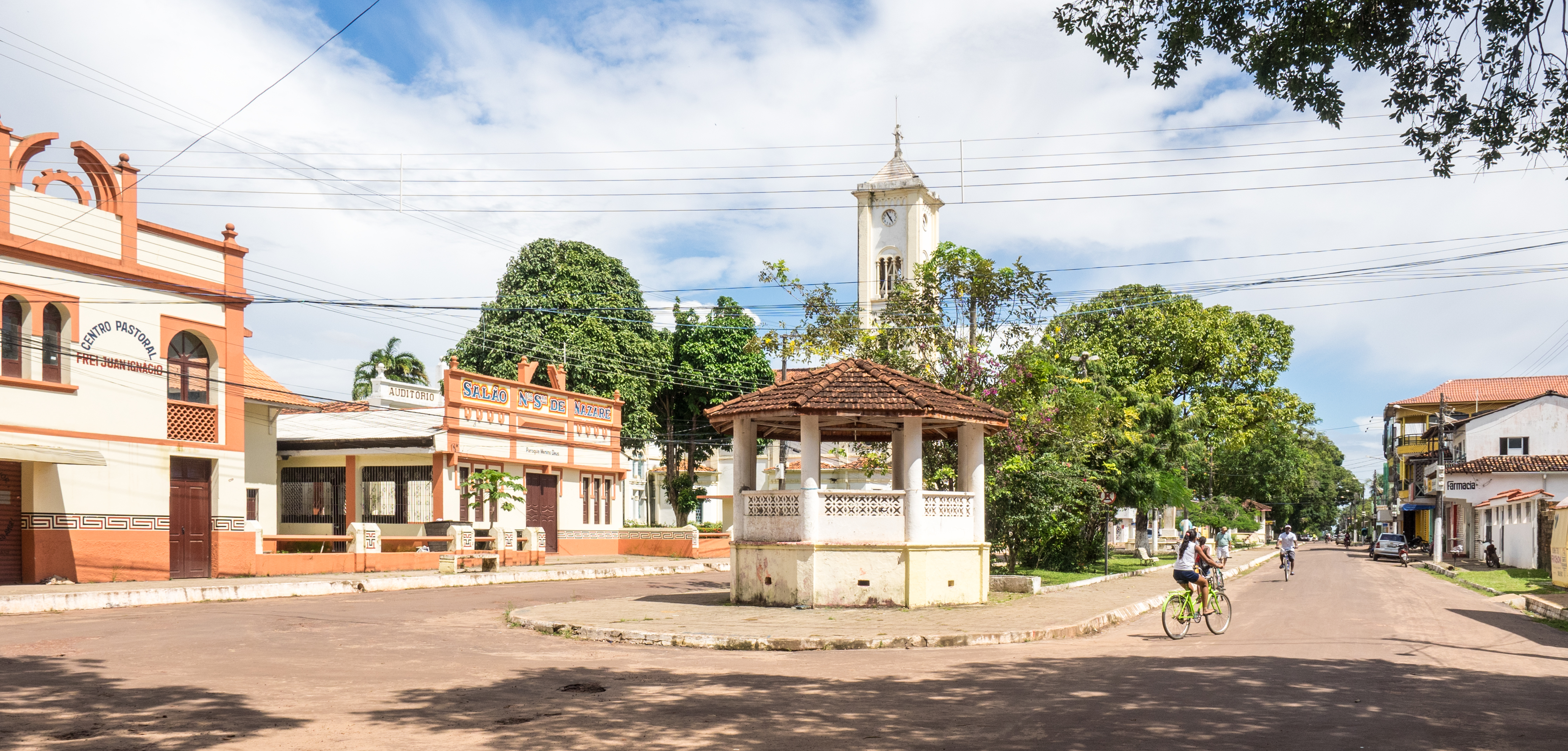 Soure / Brazil with Church